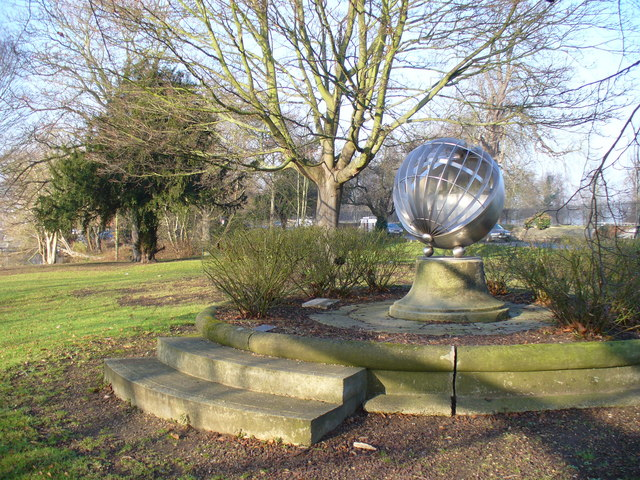 Tagg's Island Sundial Between Hampton Court Road and the River Thames. See separate photograph of plaque for sundial information.